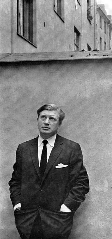 Jan Olof Olsson